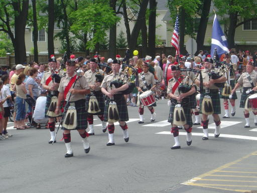 Photo taken by Joy Schoenberger with a Sony Cybershot camera in May, 2005 in Falls Church, Virginia, U.S.A. This is a bagpipe band performing in a Memorial Day parade.